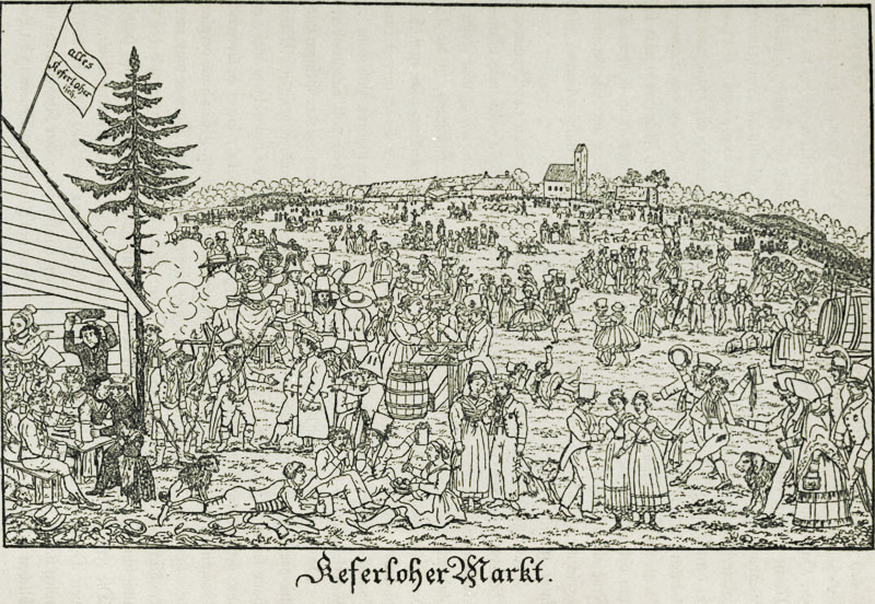 Stahlstich des Keferlohr Markts, das größte Volksfest Bayerns, bis es vom Oktoberfest abgelöst wurde